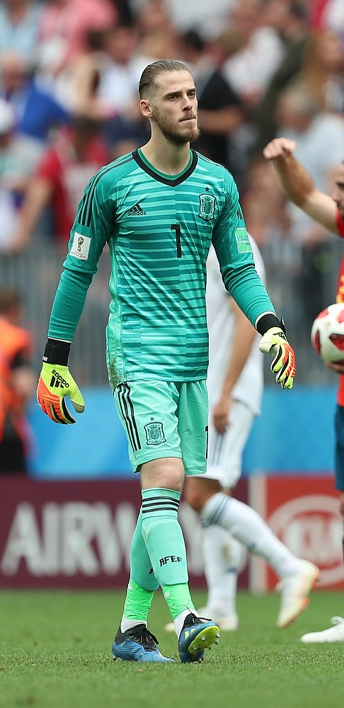 David de Gea